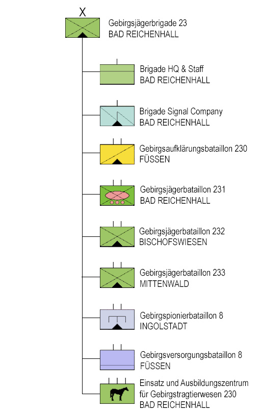 Organisation Picture w/NATO icons for German 23 Mountain Brigade.